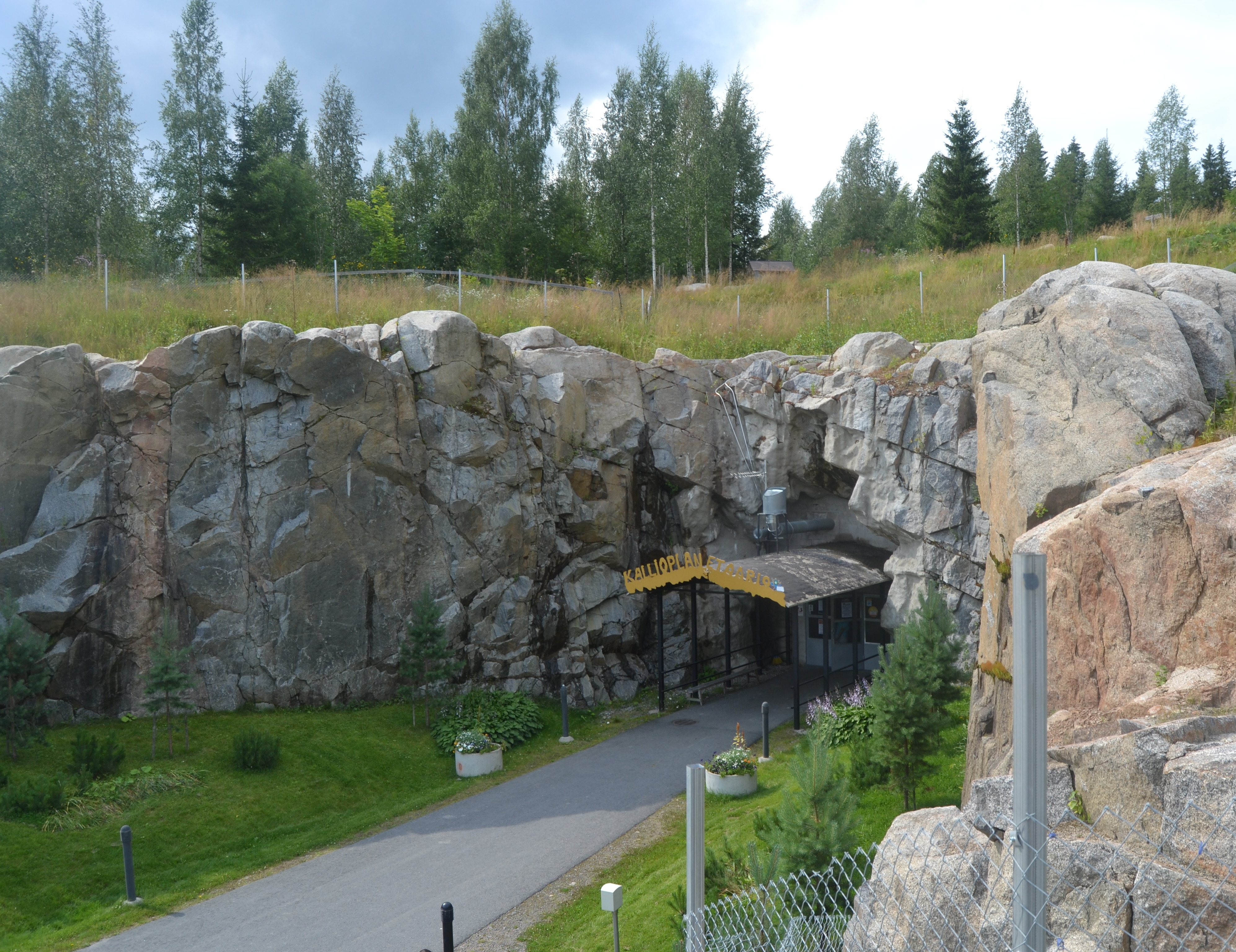 Kallioplanetaario planetarium in Jyväskylä, Finland